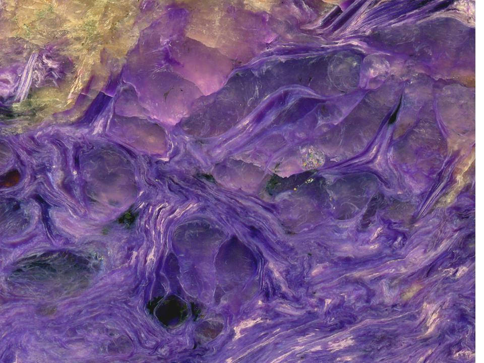 Charoitite (charoite-dominated potassic metasomatite) (5.7 cm across) from the Cretaceous of Siberia. The rare, impressively attractive, purple-colored mineral charoite is only known from a relatively small area in Siberia. Several odd, large igneous intrusions have been emplaced in Siberia’s Baikal-Aldan Belt. One of these, the Murun Complex, consists of several plutons. Emplacement of the Little Murun Pluton (Malyy Murun Pluton) has resulted in significant contact metamorphism of surrounding rocks. In the southern and southeastern contact aureole of the Little Murun Pluton is a charoitite-carbonatite complex. The charoitites are charoite-dominated contact metamorphic rocks. Metasomatism refers to rocks that have been altered by significant input of elements from an outside source. Because that’s primarily what contact metamorphism is about, such rocks can be called metasomatites. Some of the metasomatites in this area are purple-colored (“Sirenevyy Kamen” - the “Purple Stone” deposit). The purple material is the very rare mineral charoite. Charoite is a “garbage can” mineral, and the chemical formula assigned to it by geologists varies from publication to publication. Here’s one of the formulas I’ve seen, randomly picked: (K,Na)3(Ca,Sr,Ba,Mn)5Si12O30(OH·F)·3H2O - hydrous potassium sodium calcium strontium barium manganese hydroxy-fluorosilicate. Locality: Charoitites are mined from several specific, relatively closely-spaced localities in the headwaters areas of the Davan and Ditmara streams, south of Olekminsk & the Lena River, way northeast of Lake Baikal, southwestern Yakutia (Sakha), Siberia, Russia (~vicinity of 58º 22’ North, 119º 11’ East). Age: Aptian Stage, Early Cretaceous, 115-120 m.y.